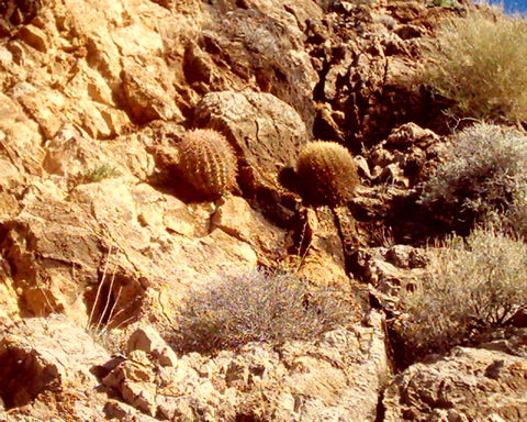 Ferocactus cylindraceus — California barrel cactus. In the Virgin River Gorge of the Mojave Desert, in Mohave County, northwestern Arizona. Credits By David Jolley, in 2005. Uploaded from the English Wikipedia by Ies 16:30, 11 April 2007 (UTC)